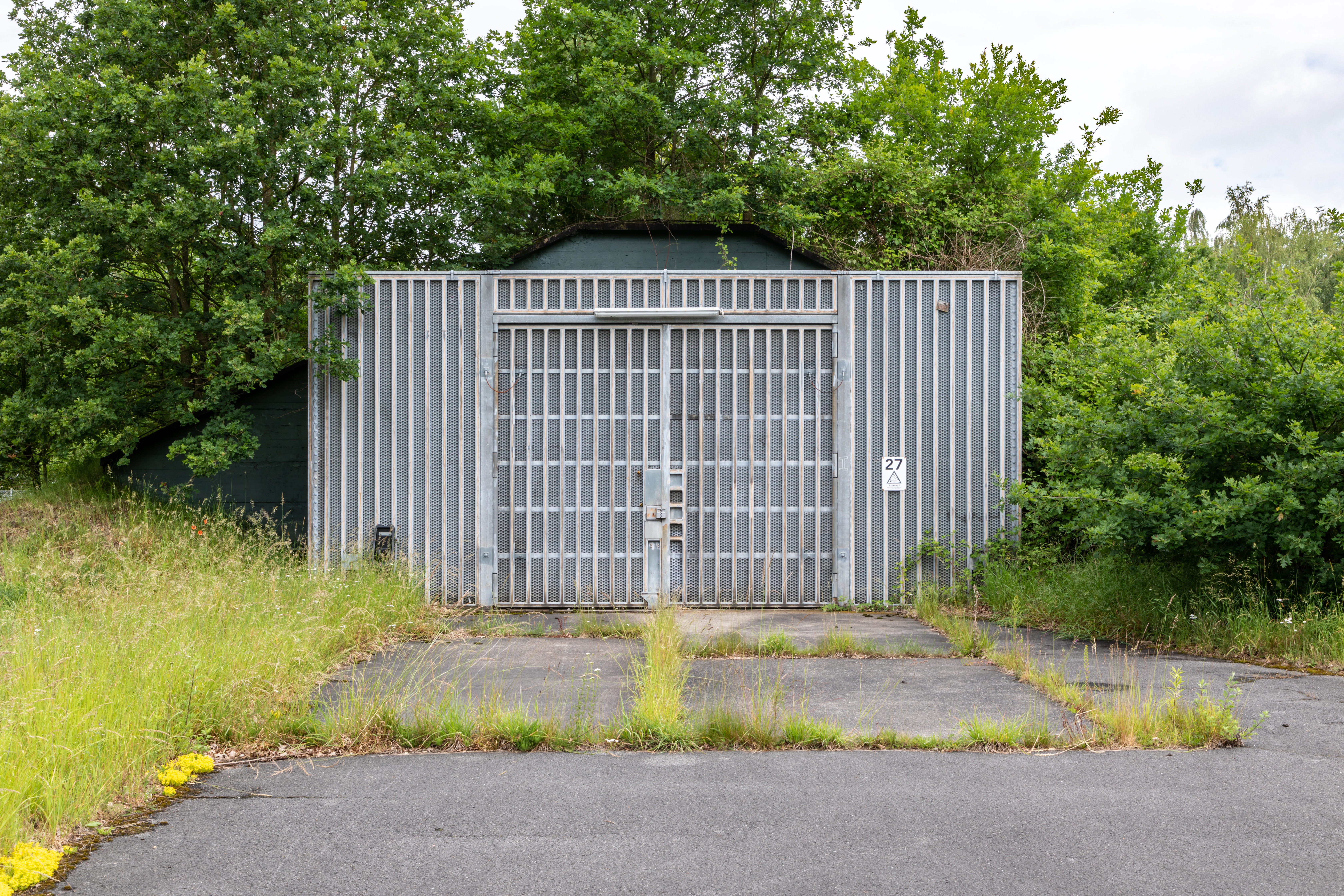 Bunker 27 (US Army area) in the former arsenal in the Dernekamp hamlet, Kirchspiel, Dülmen, North Rhine-Westphalia, Germany This image shows a heritage building in Germany, located in the North Rhine-Westphalian city Dülmen (no. 132).